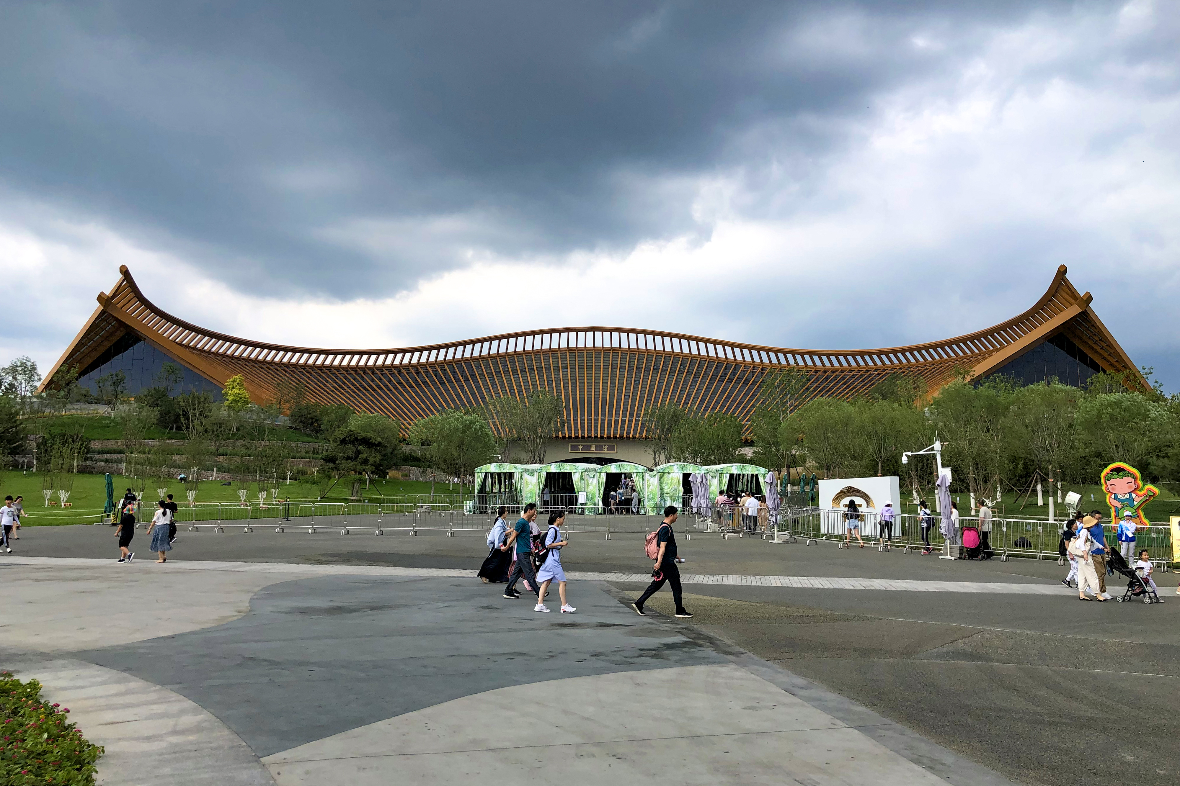 Looks like... an airport terminal?